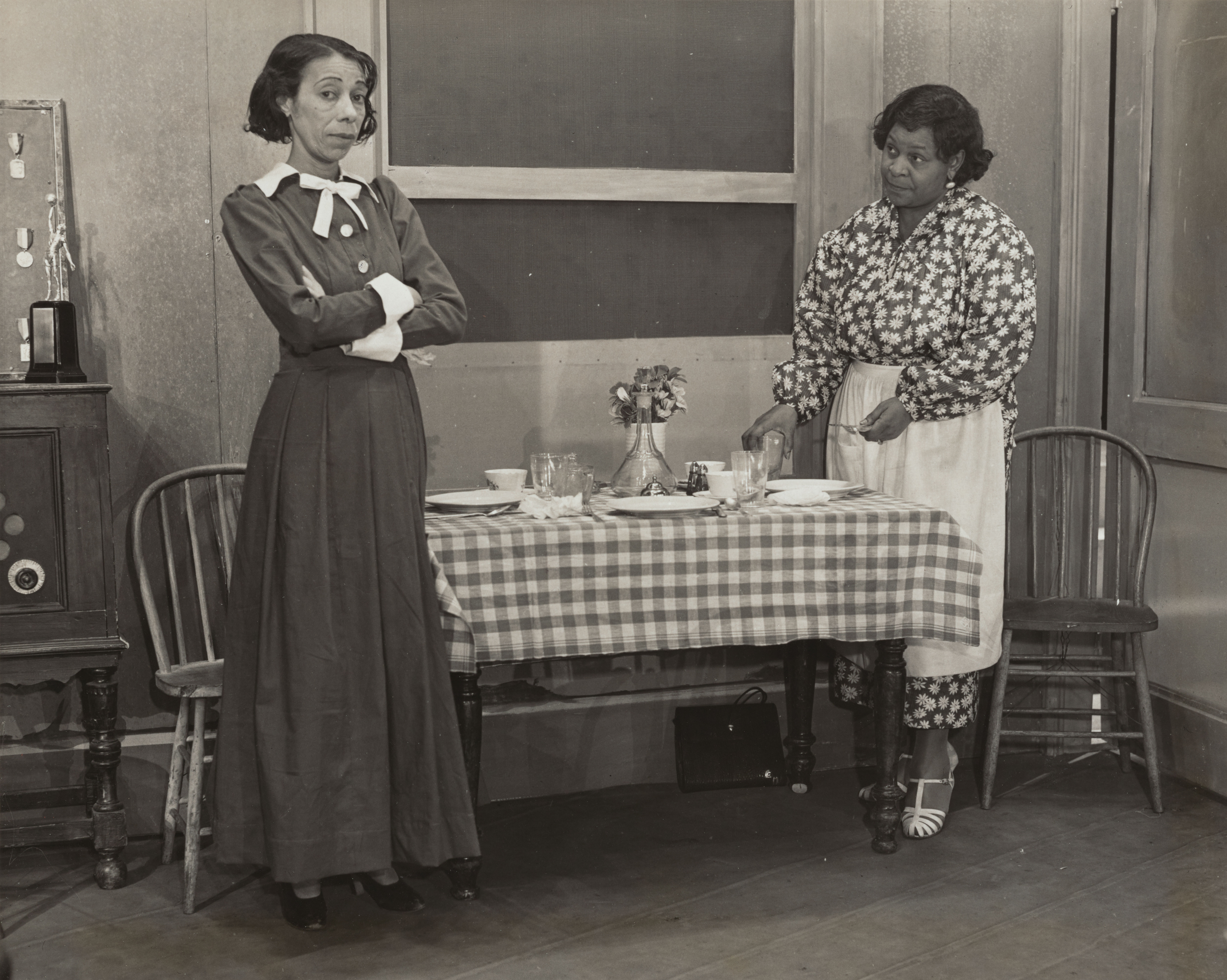 Photograph of a scene from the Federal Theatre Project production of The Case of Philip Lawrence at the Lafayette Theatre; cast includes (from left) Estelle Hemsley as Mrs. Jenkins and Alberta Perkins as Martha Robbins